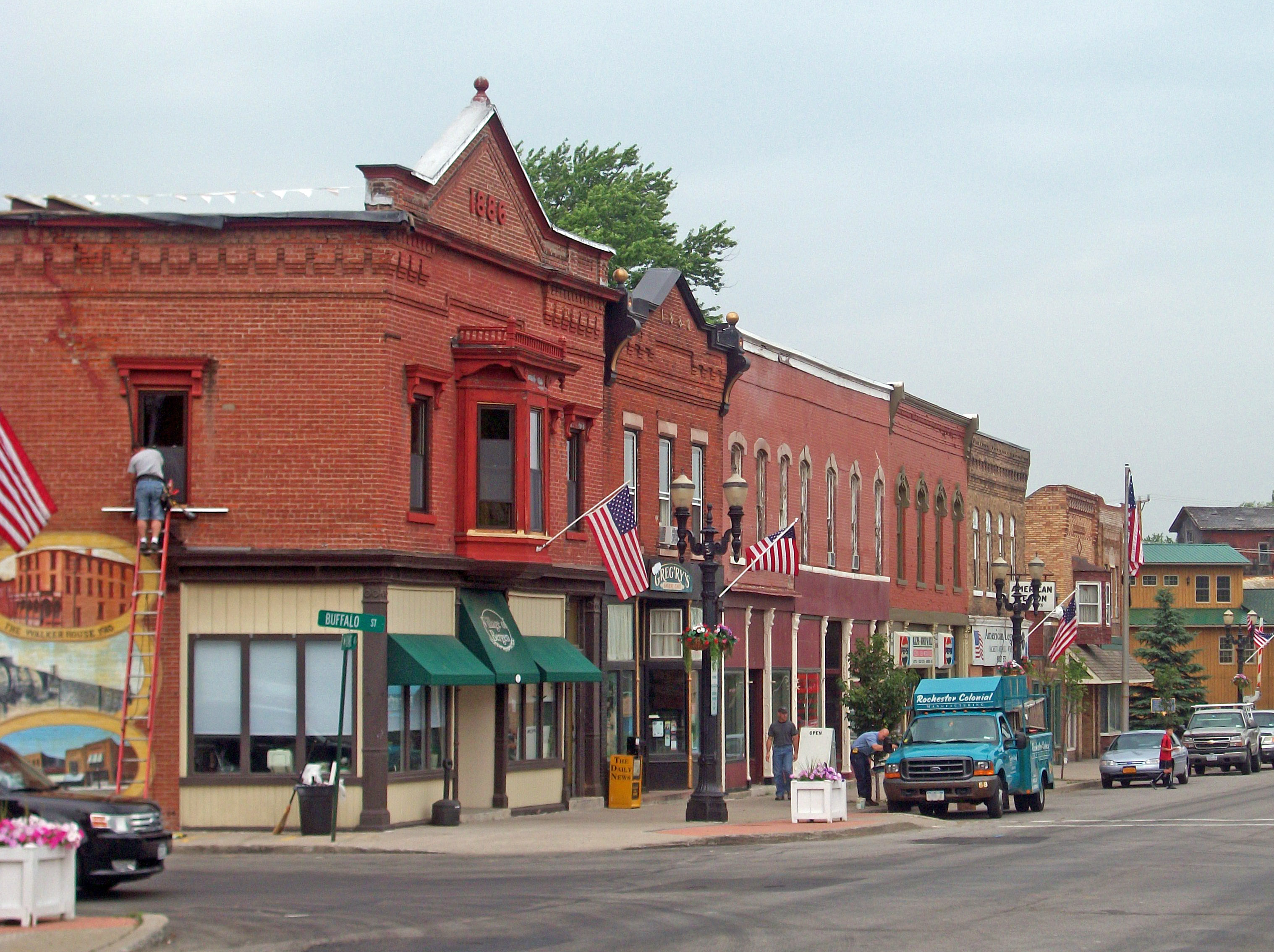 Buildings in Lake Street Historic District, Bergen, NY, USA. Building at left is village hall